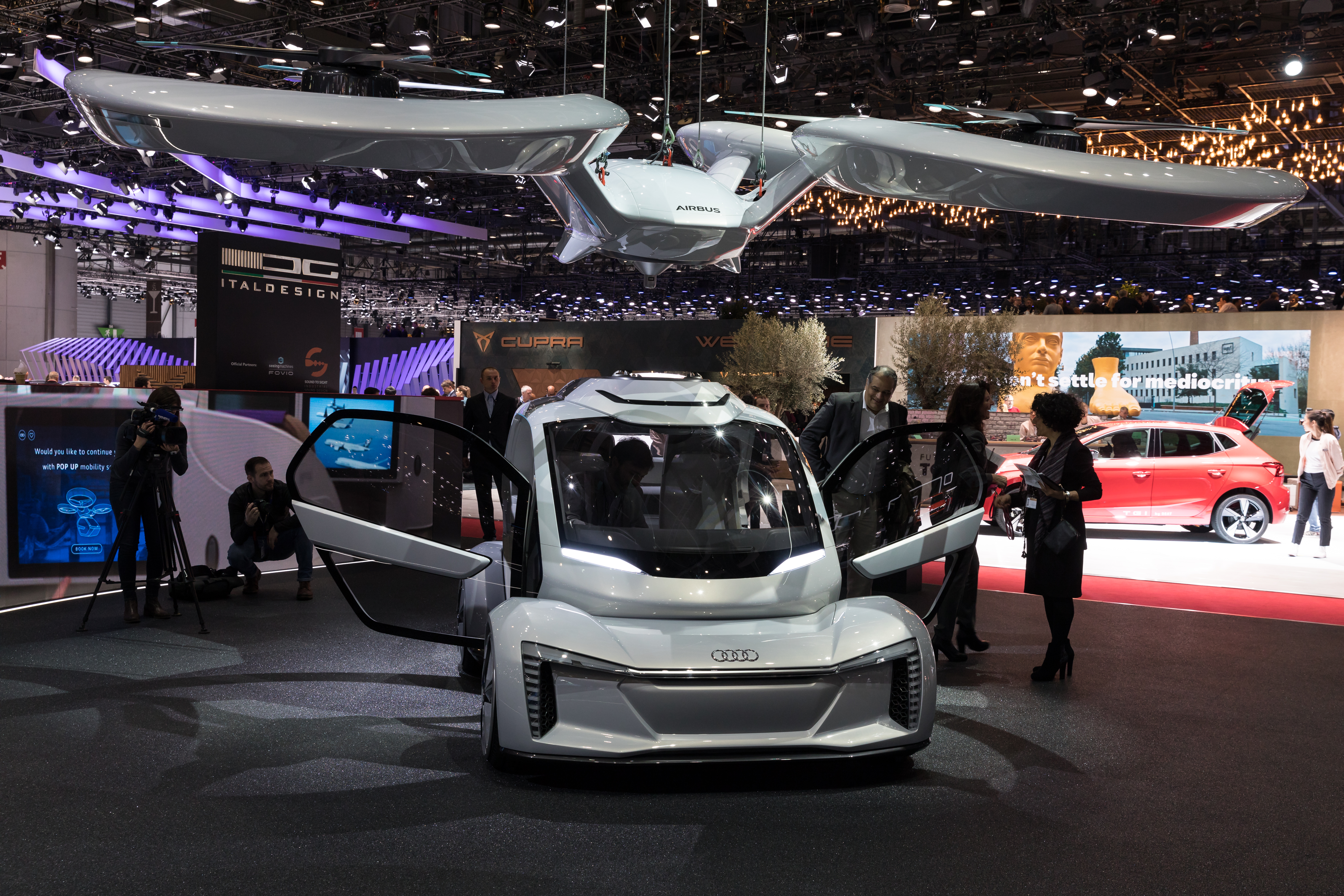 Audi Pop.Up.Next, Geneva International Motor Show 2018